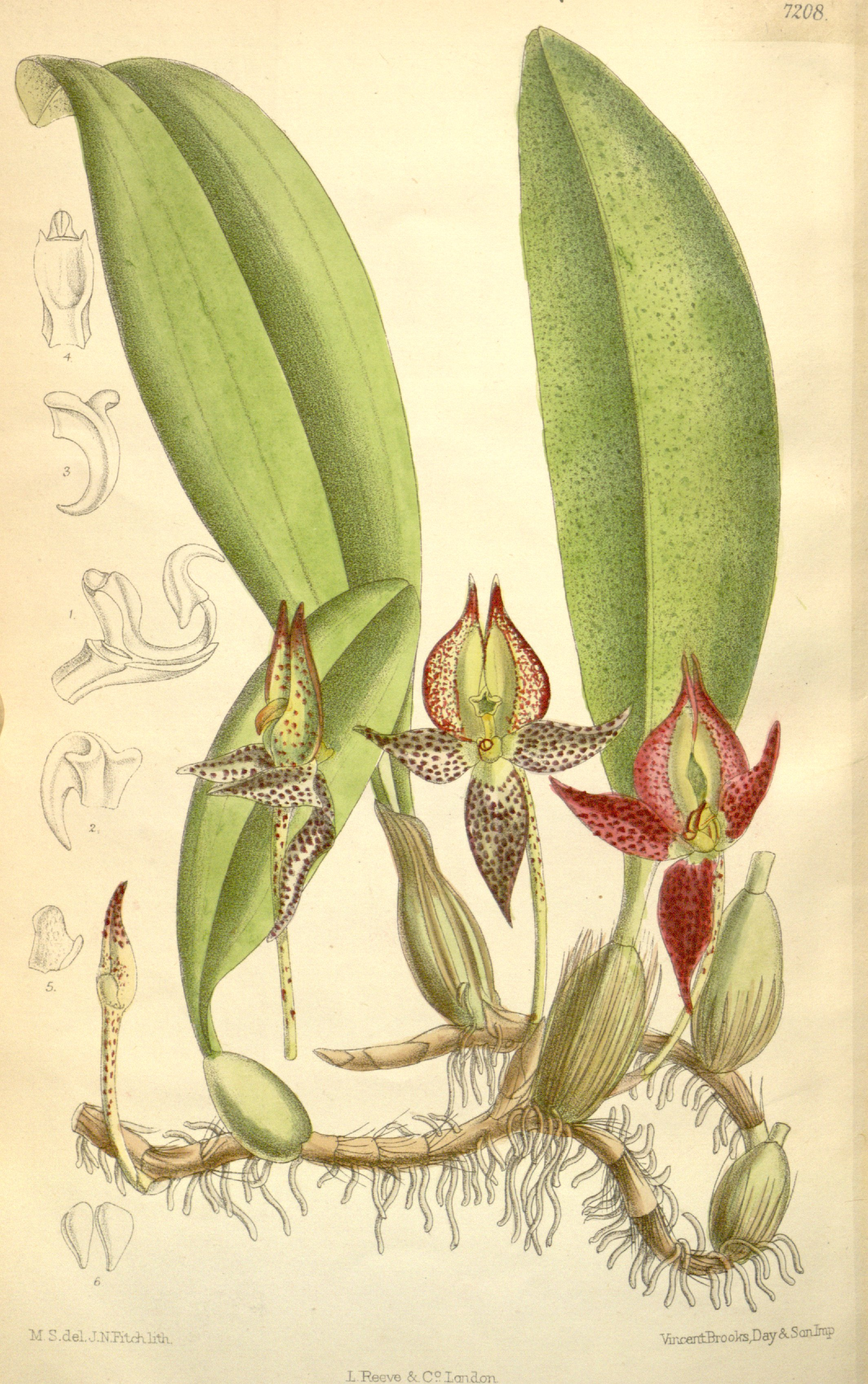 Illustration of Bulbophyllum macranthum